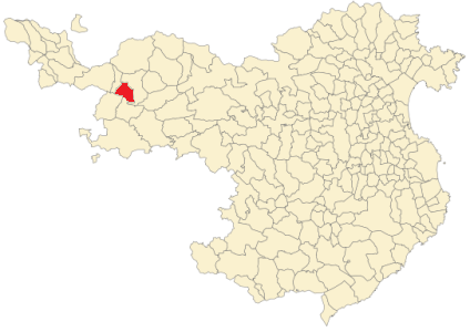 Campelles